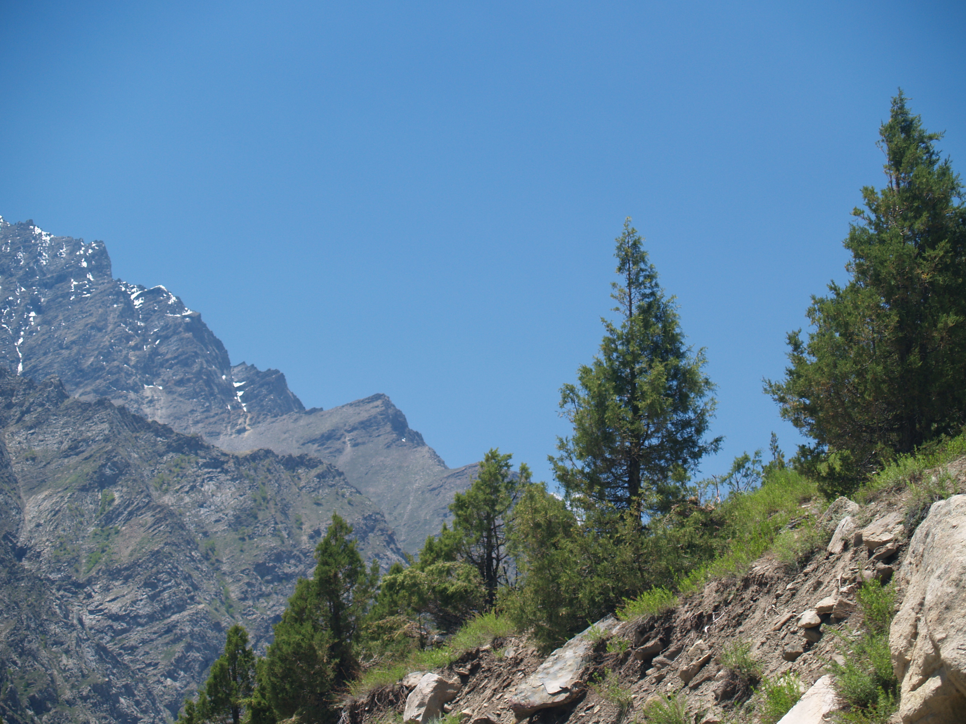 Cupressus torulosa, Manali-Leh Highway, Himachal Pradesh, India